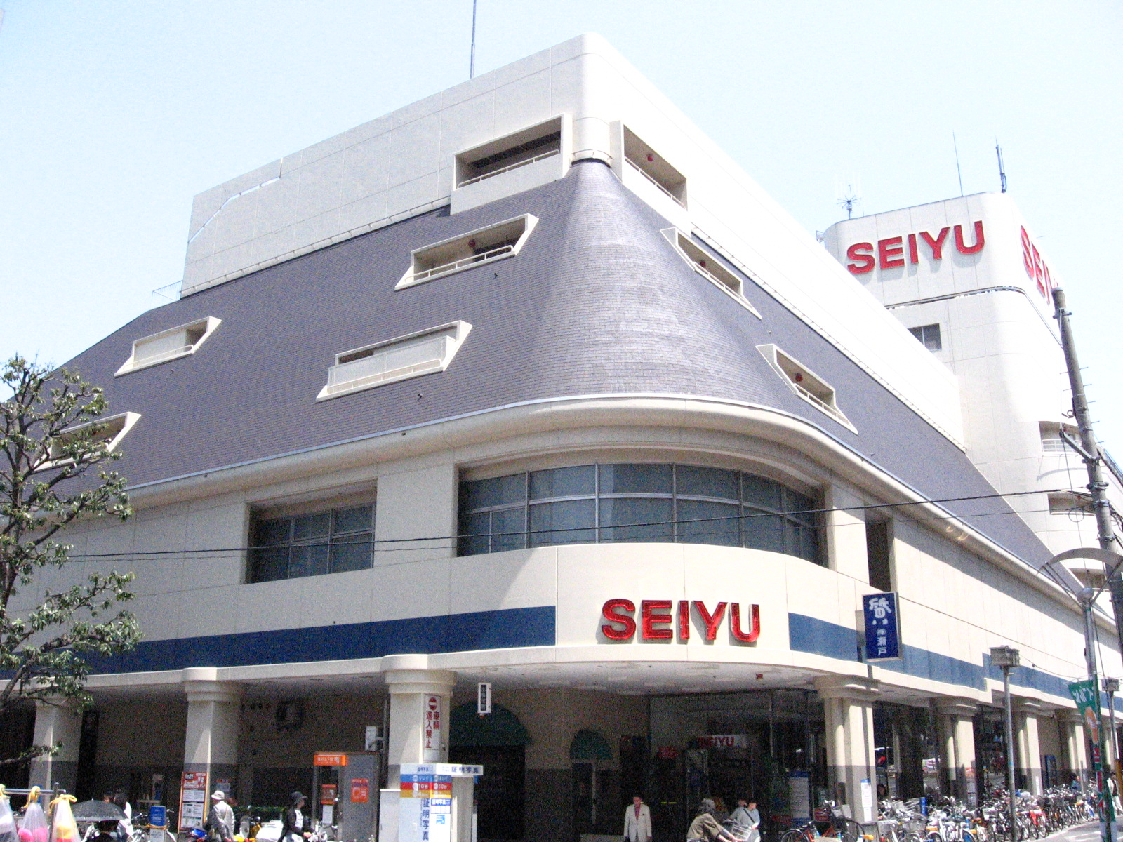 西友三軒茶屋店（東京都世田谷区）